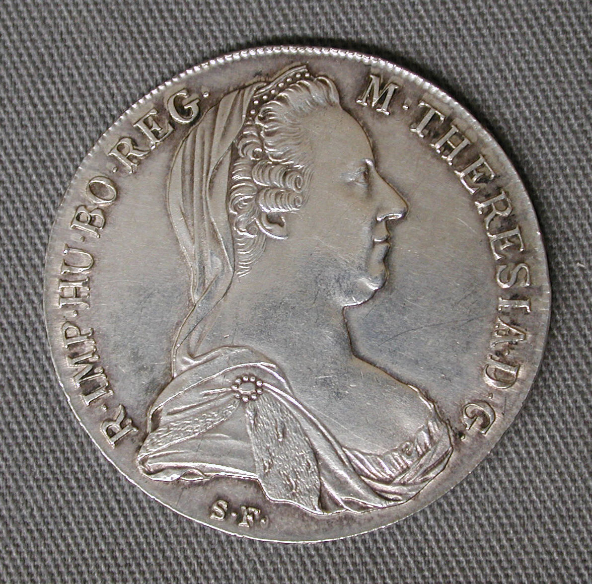 Austrian; Thaler; Coins